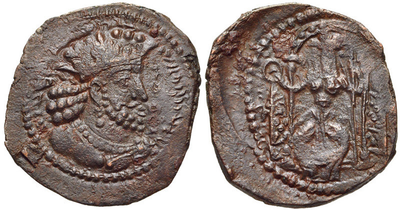 Ardashir II Kushanshah Circa 230-250 CE